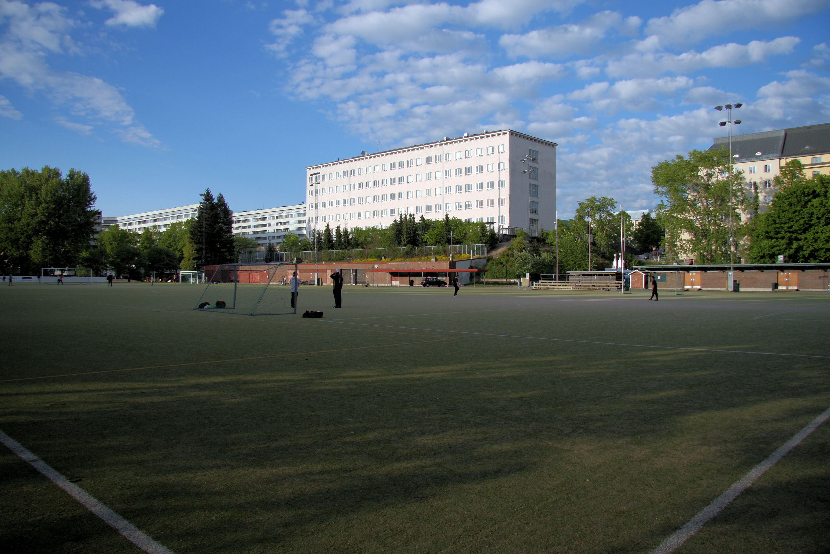 The Brahe sportsfield in Helsinki, Finland.